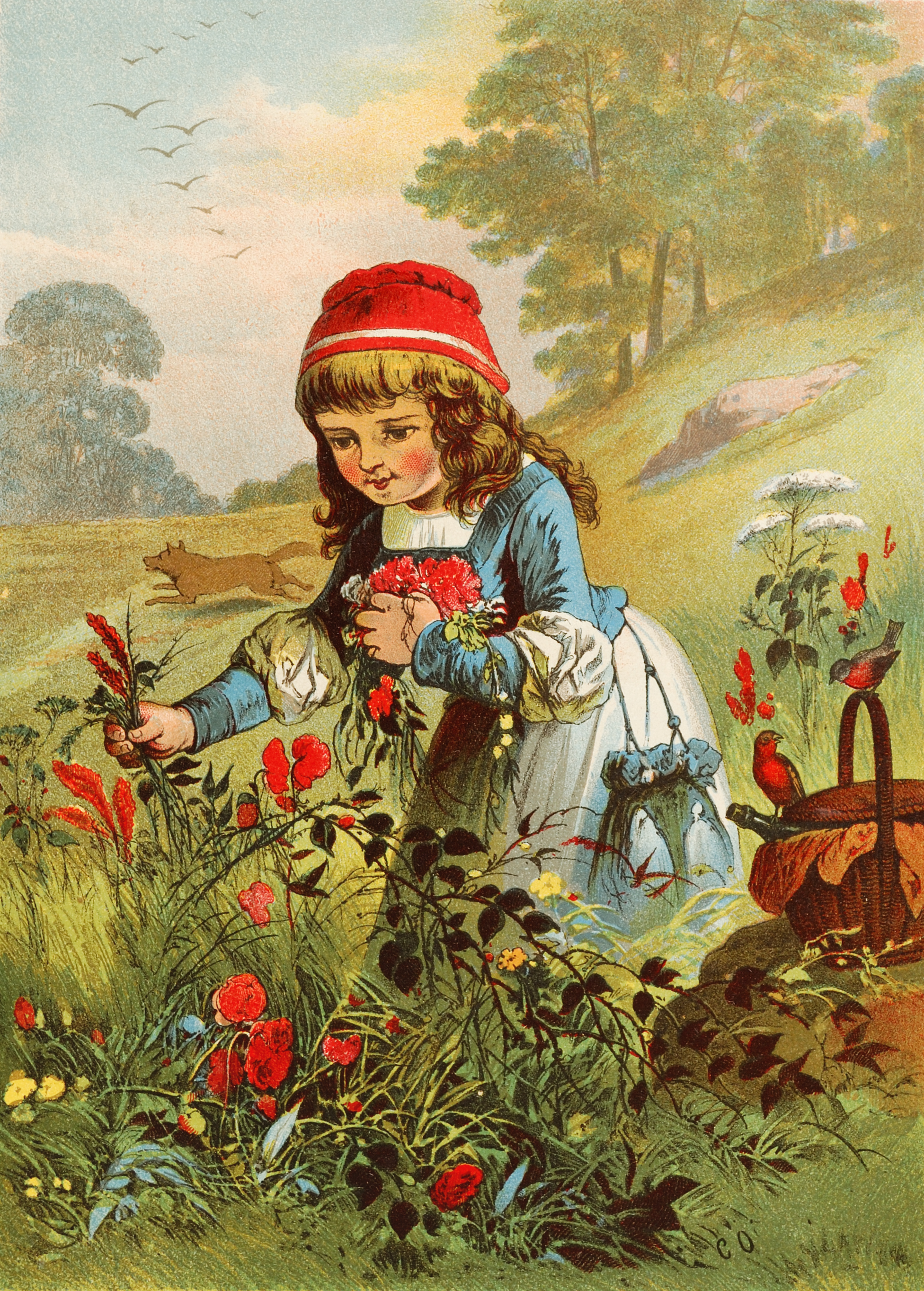 Little Red Riding Hood, illustration by Carl Offterdinger